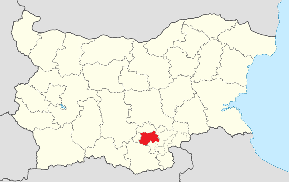 Location map of Haskovo Municipality within Bulgaria and Haskovo Province